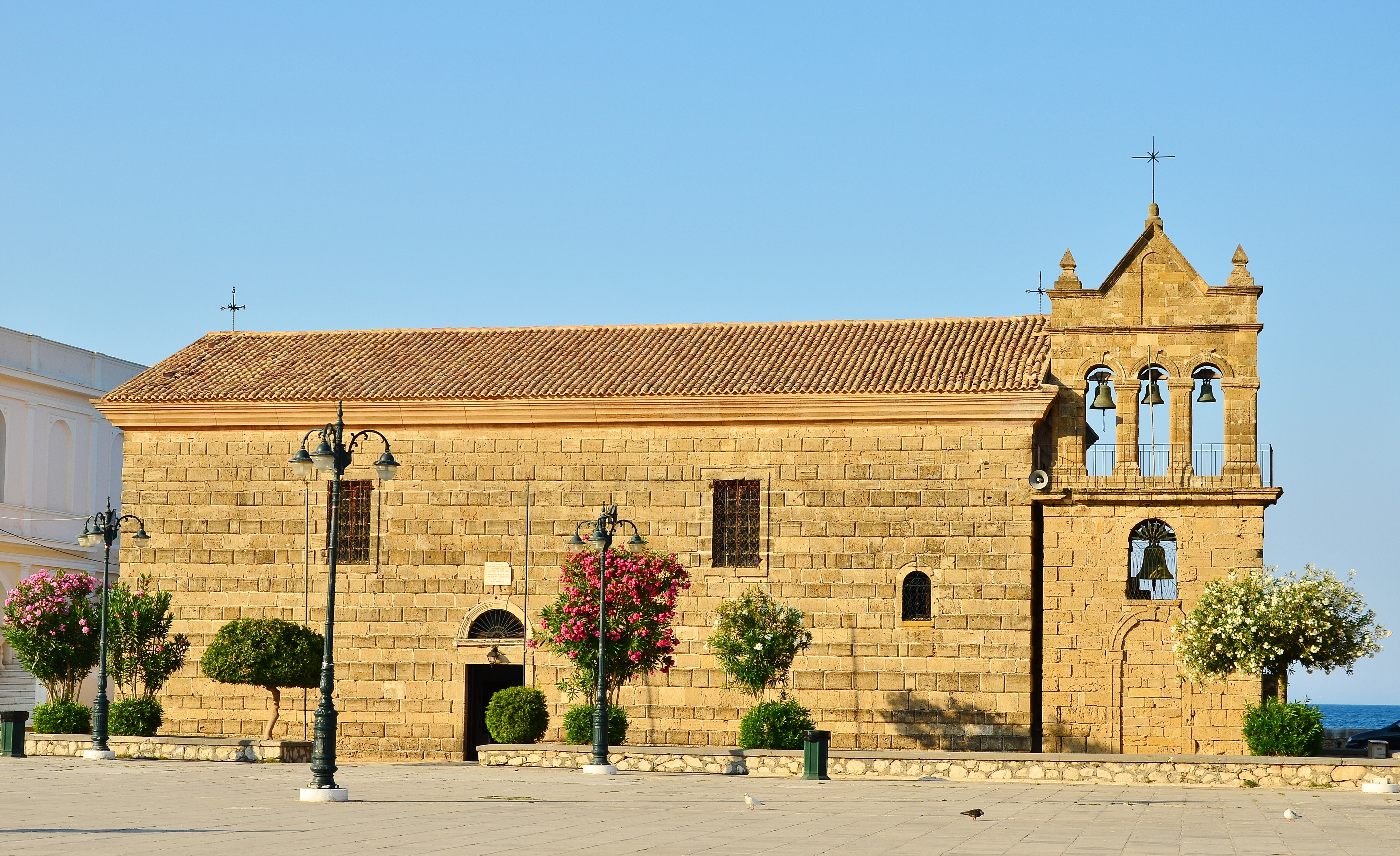 Church of saint Nikolaos on the mole, the only venetian building preserved in Zakynthos city, after 1953 earthquake.